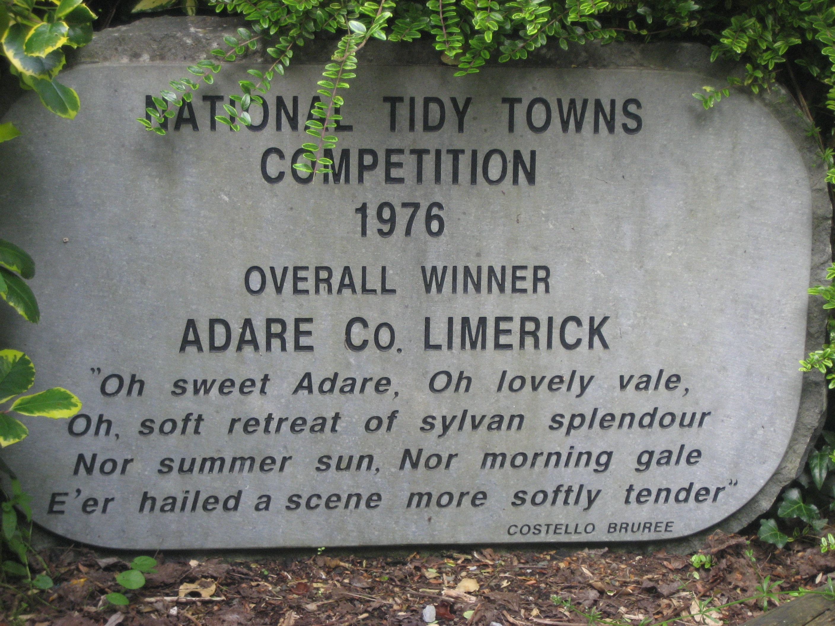 National Tidy Towns Comptetition Adare 1976